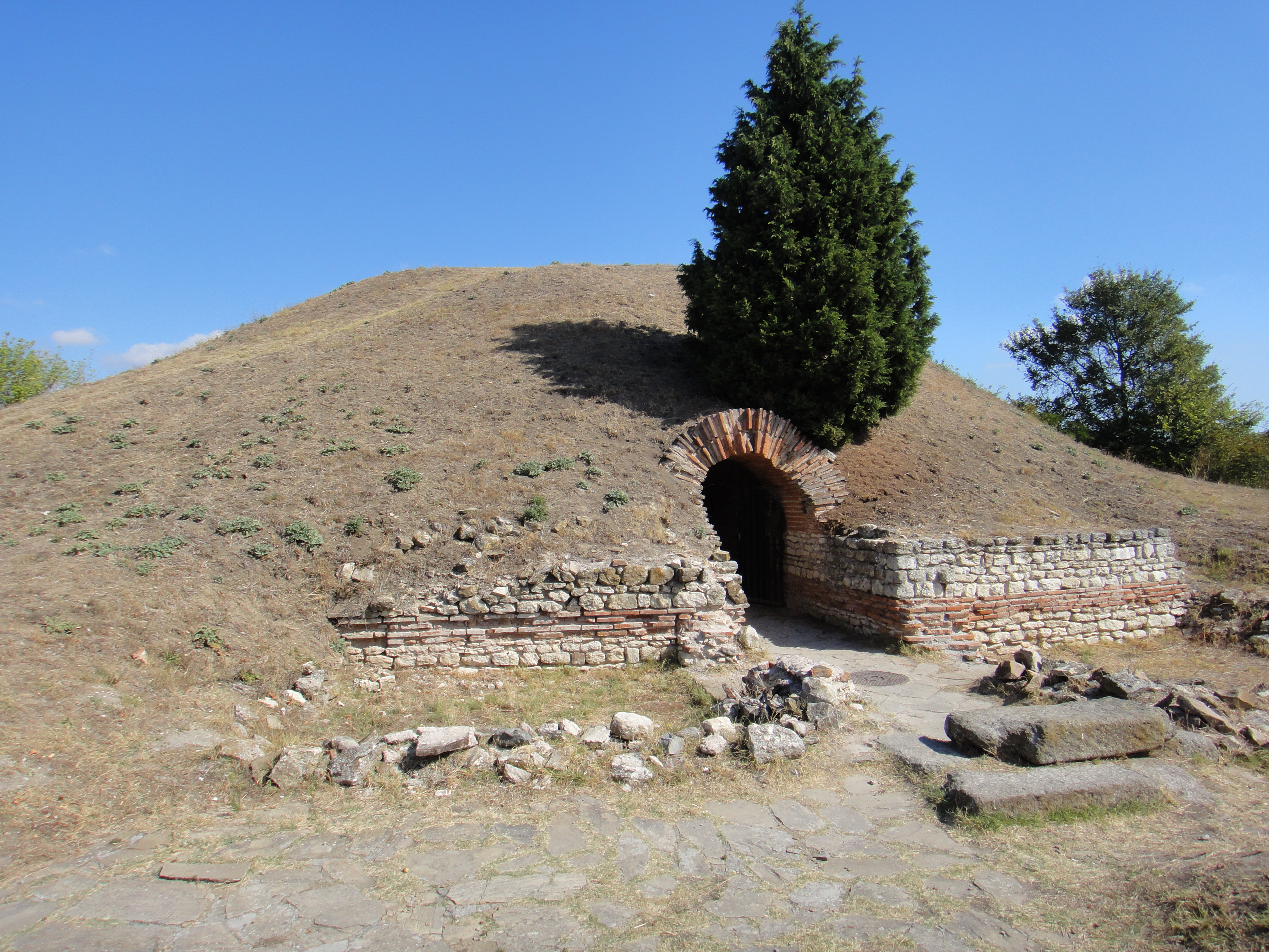 Antique domed tomb II - III century BC Located in the necropolis Anchialos (modern Pomorie, Bulgaria)